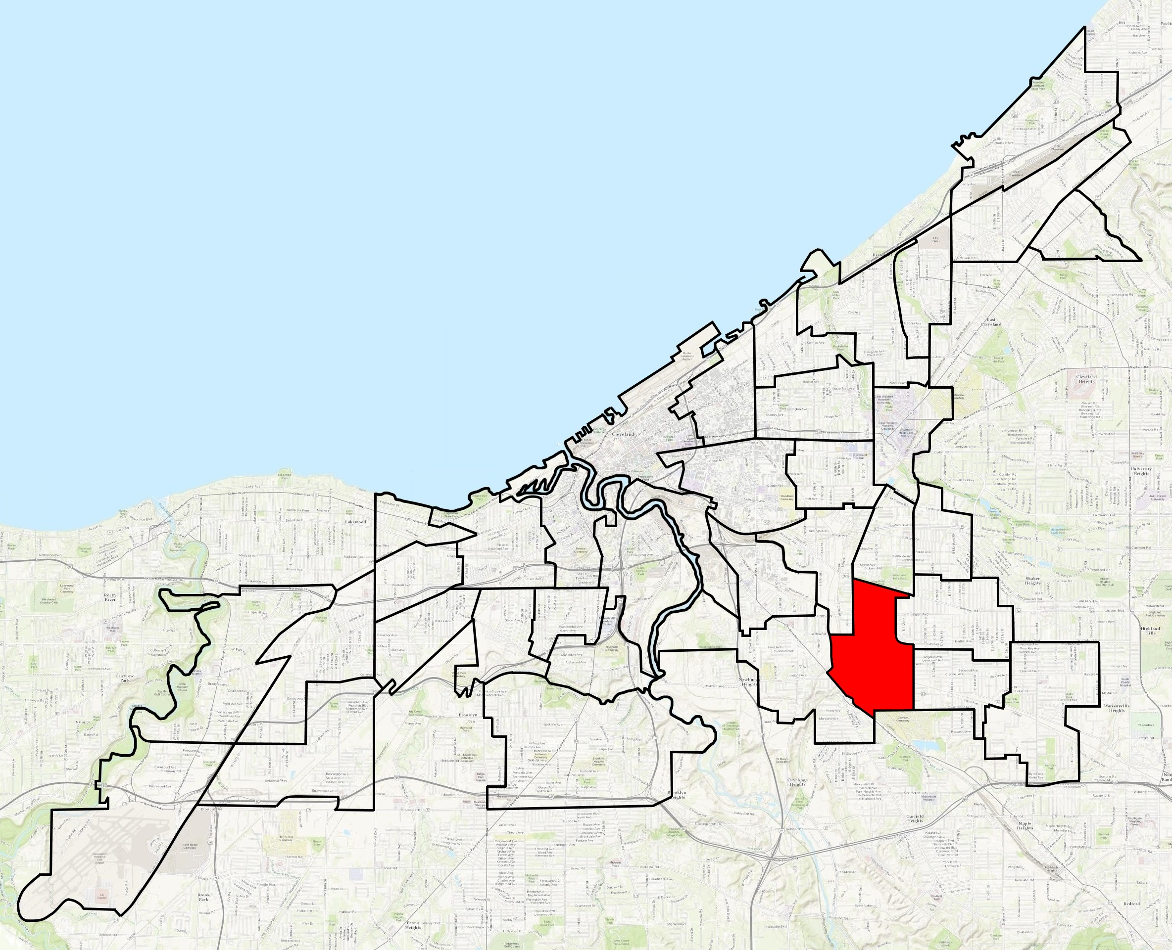 Map of the approximate boundary of the Union - Miles Park neighborhood of Cleveland, Ohio, in the United States, with the neighborhood colored in red and boundaries of other neighborhoods shown.